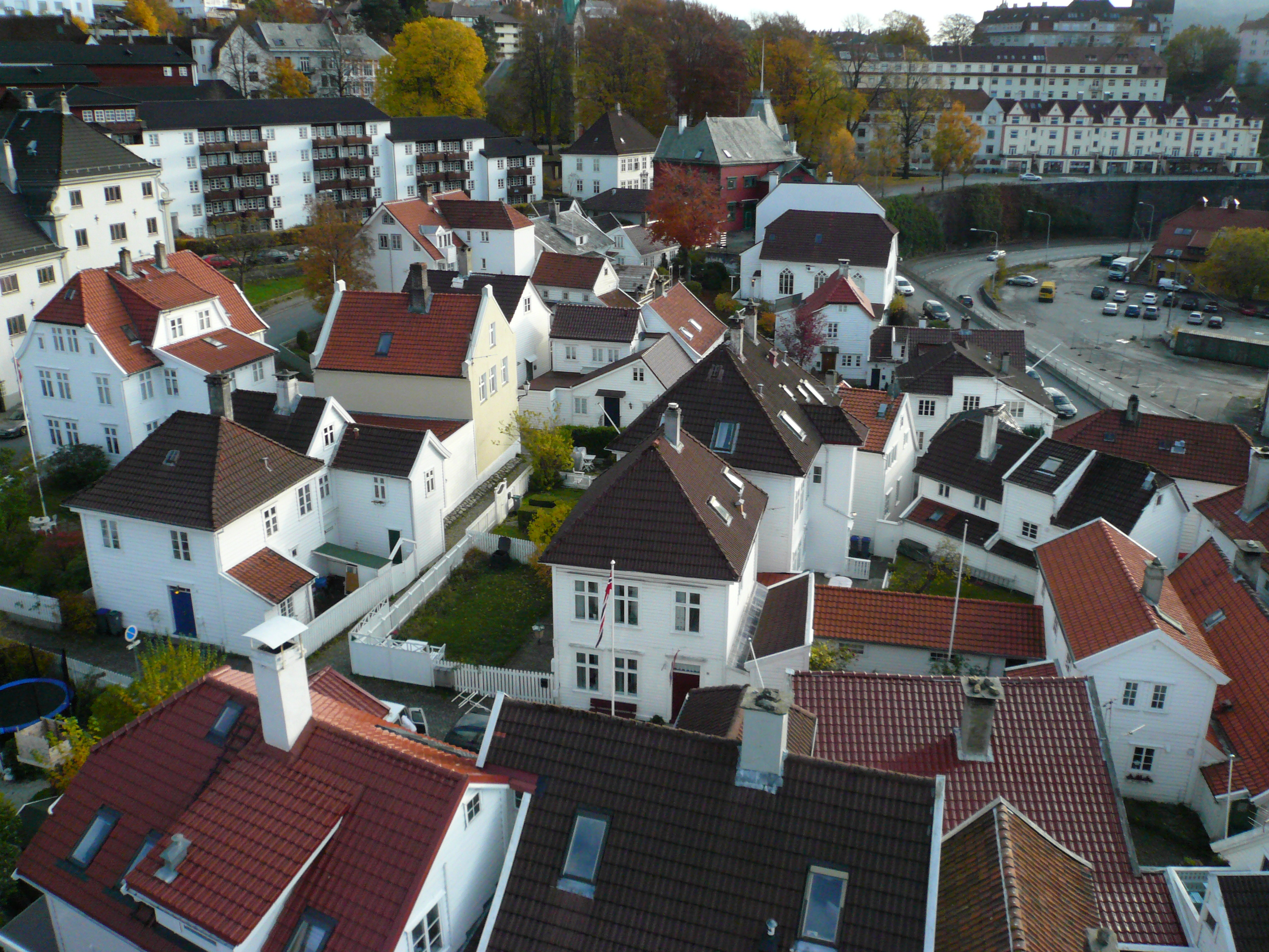 Sandviken, Bergen, Norway